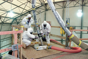 Fluor Fernald Workers are Expected to Finish Pneumatically Removing Thorium-Bearing Waste from Silo 3 in November 2005. More Than 1,400 Containers (3-cubic yards each) Have Been Filled Since March.